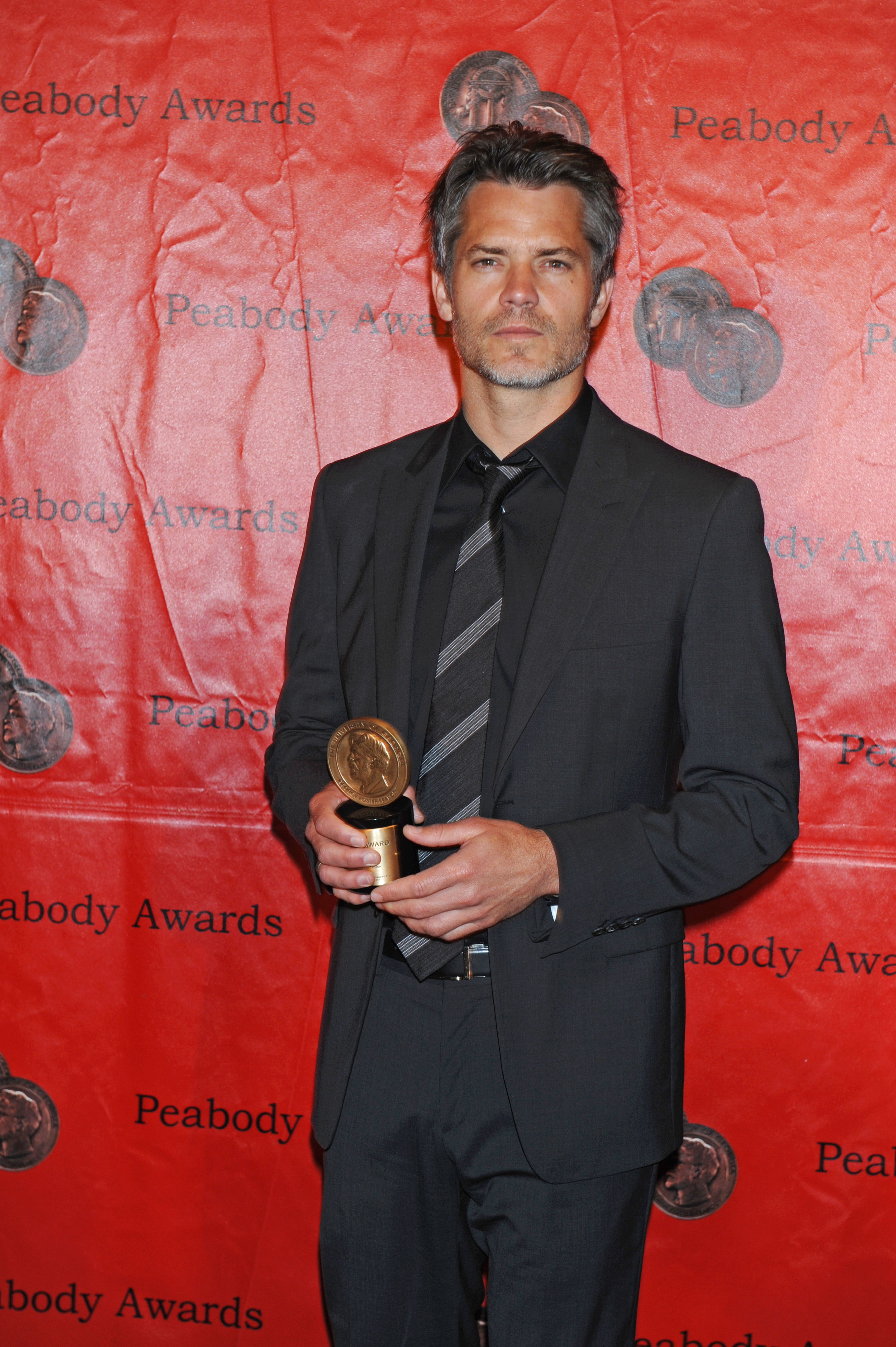 PHOTO CREDIT: ANDERS KRUSBERG / PEABODY AWARDS 70th Annual Peabody Awards Luncheon Waldorf=Astoria Hotel May 23, 2011